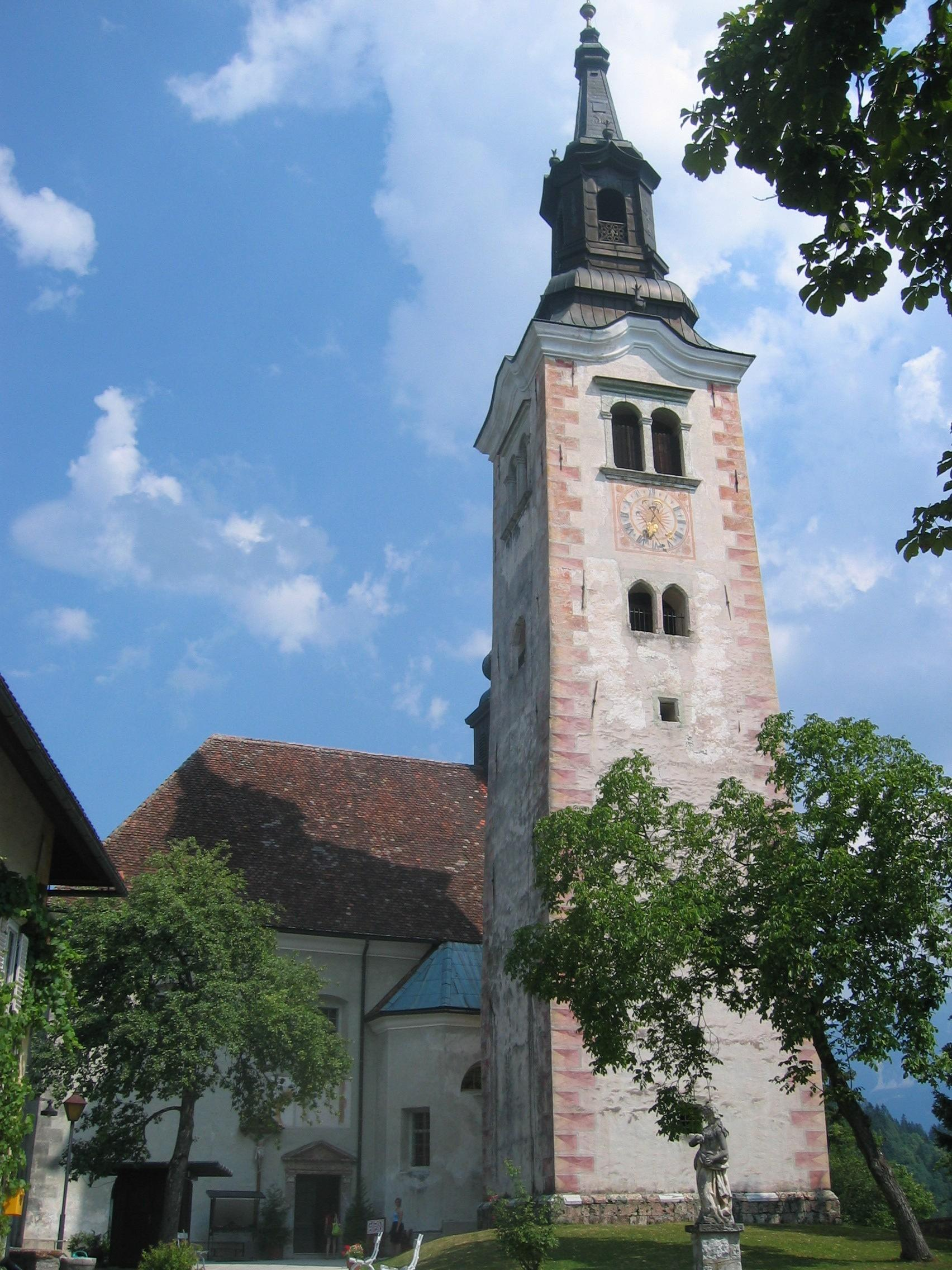 Church of Mary's Assumption, island on lake Bled, Slovenia photo:Ziga 08:25, 13 August 2006 (UTC)